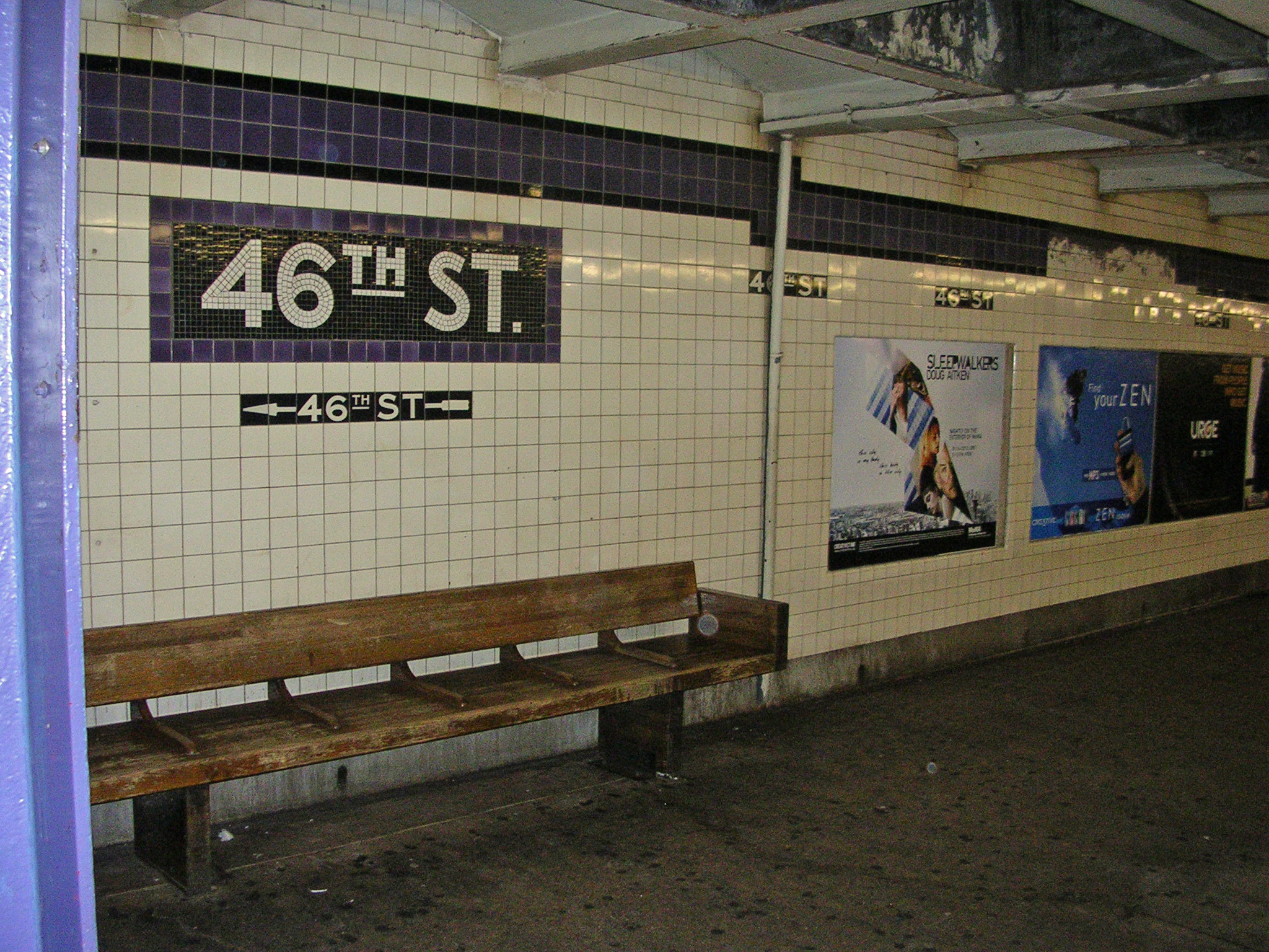 46th Street Station by David Shankbone, January 15, 2007.